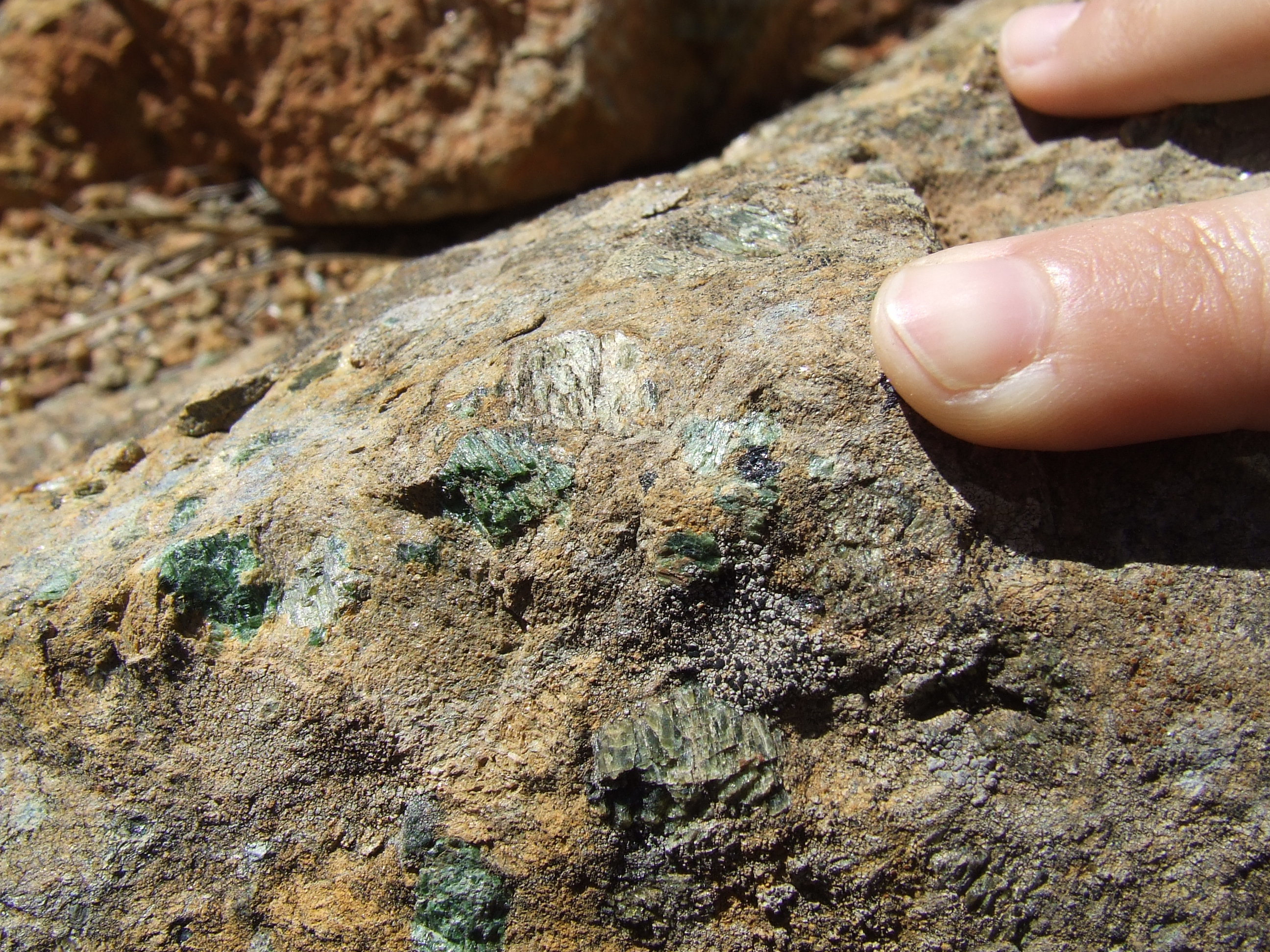 eu Peridotita arroka eta piroxeno mineralak berdez. en Peridotite rock and piroxene minerals with green colour.